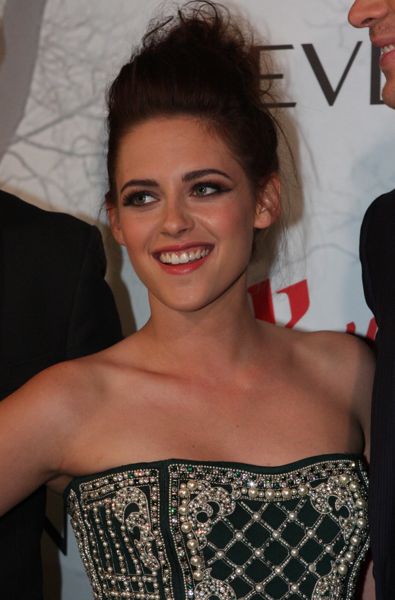 Kristen Stewart at the Snow White and the Huntsman movie premiere - Bondi Junction, Sydney Australia 2012.